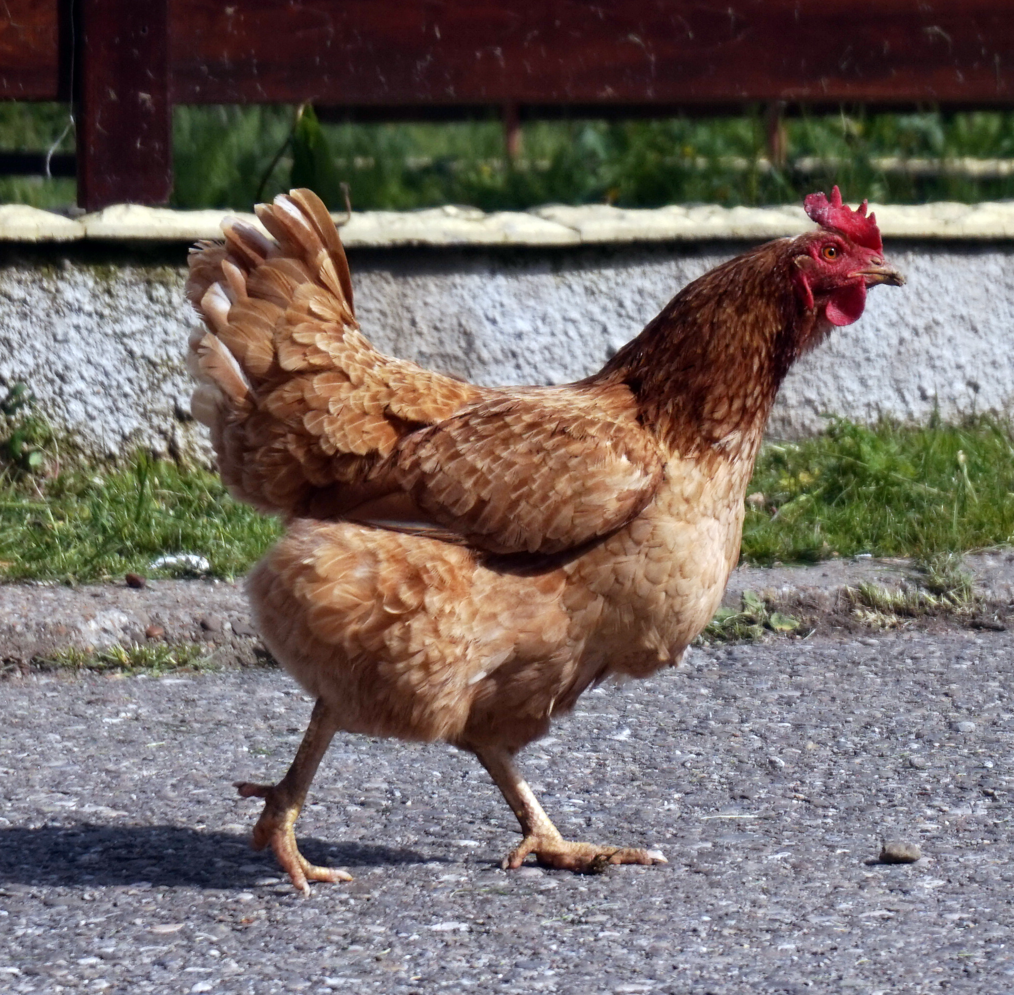 A chicken in Busteni, Romania.This photograph was taken with a Sony ILCE-5000